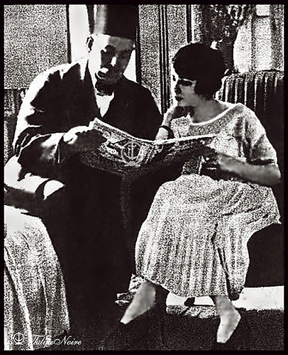 Nazli Sabri with her father